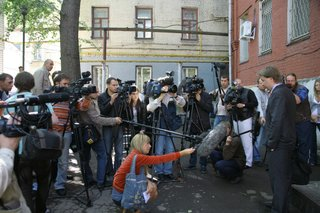 Photo taken August 26, 2009, outside the Moscow Tverskoy District Court after the hearing of the marriage case of Irina Fedotova-Fet and Irina Shipitko. The photo shows the heavy media interest in the case and was taken outside the court.